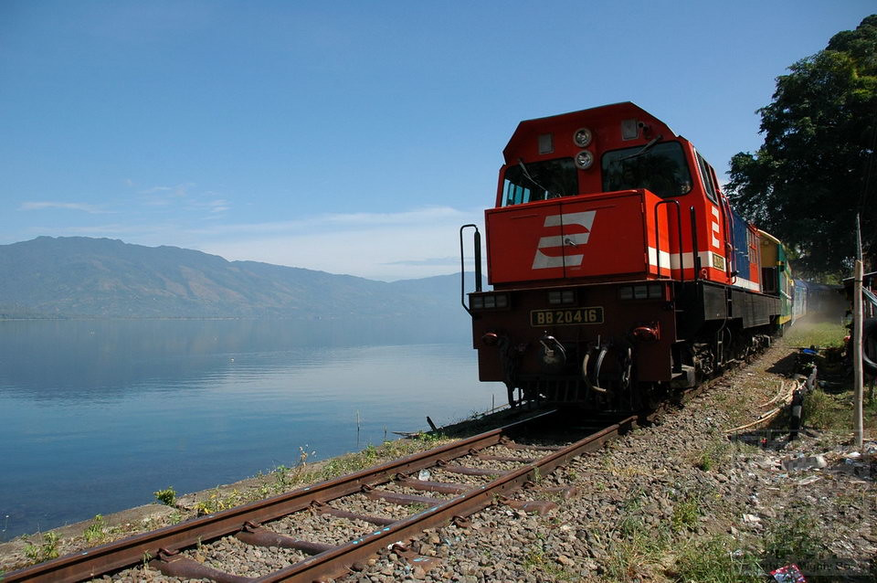 Padang Panjang tourism train at Sawahlunto (On the side of Singkarak Lake).